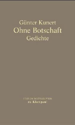 Book cover of Günter Kunert's book with poems "Ohne Botschaft"